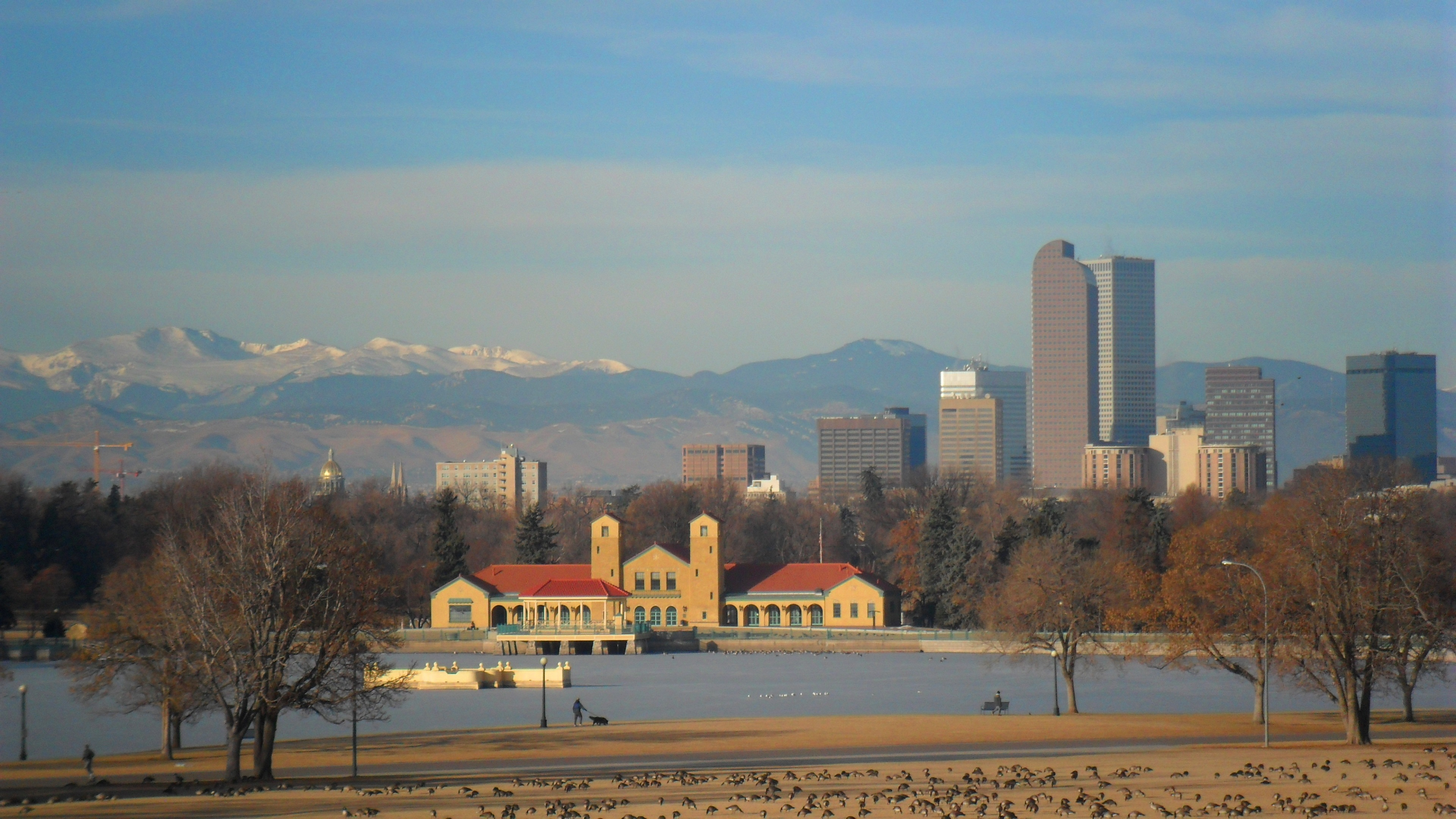 Denver City Park 2011